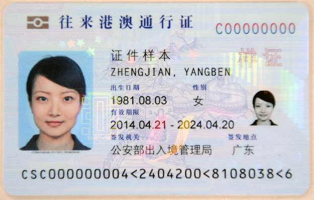 The front side of the official sample of a Two-way Permit. All the personal information inside is made up.